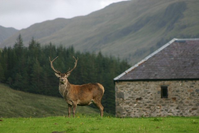 Monarch of Knoydart Glen. A number of red deer are being studied on Knoydart, near Inverie at Kilchoan, with a view to improving deer management in the future.